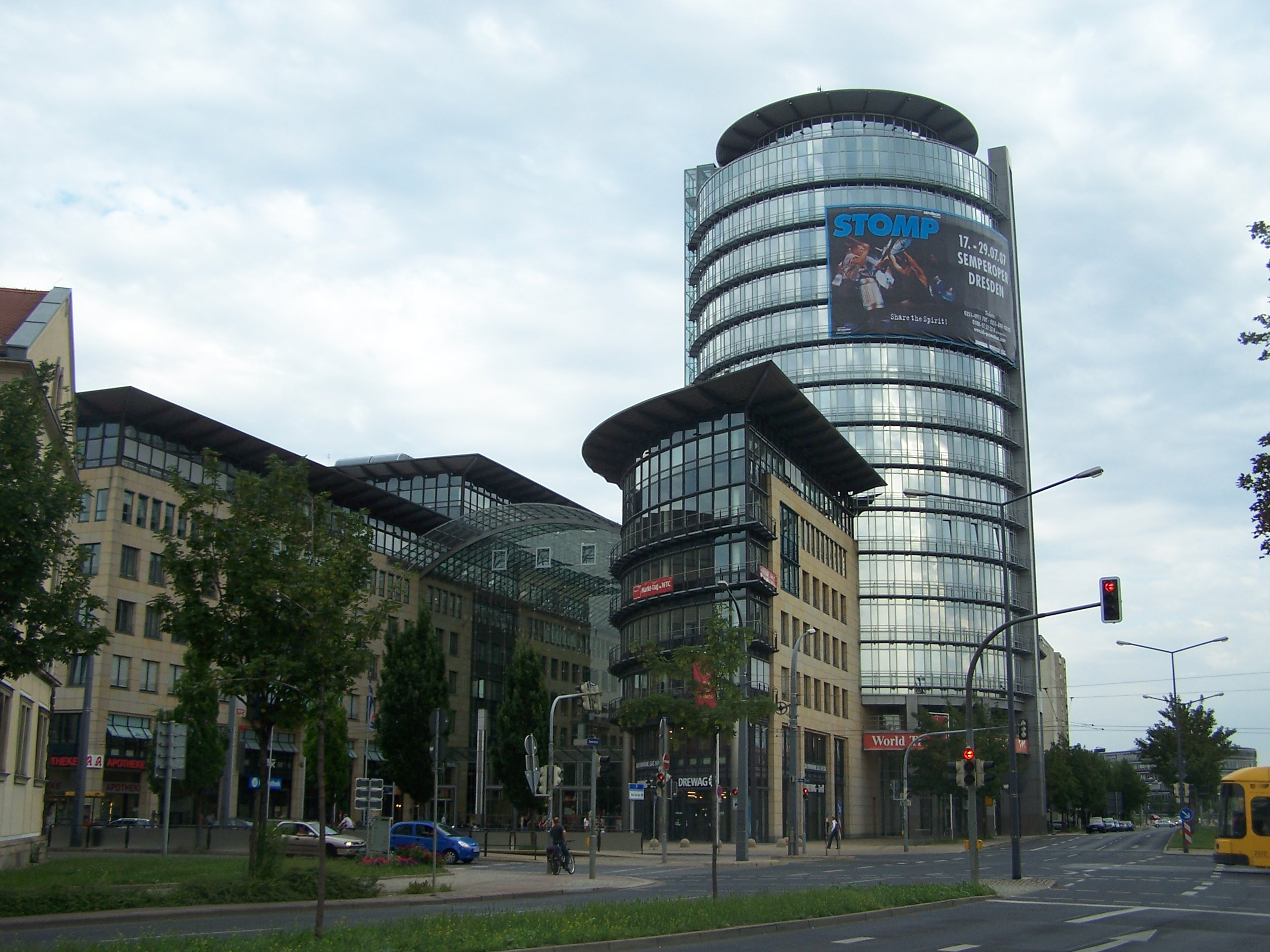 office building World Trade Center in Dresden, Germany